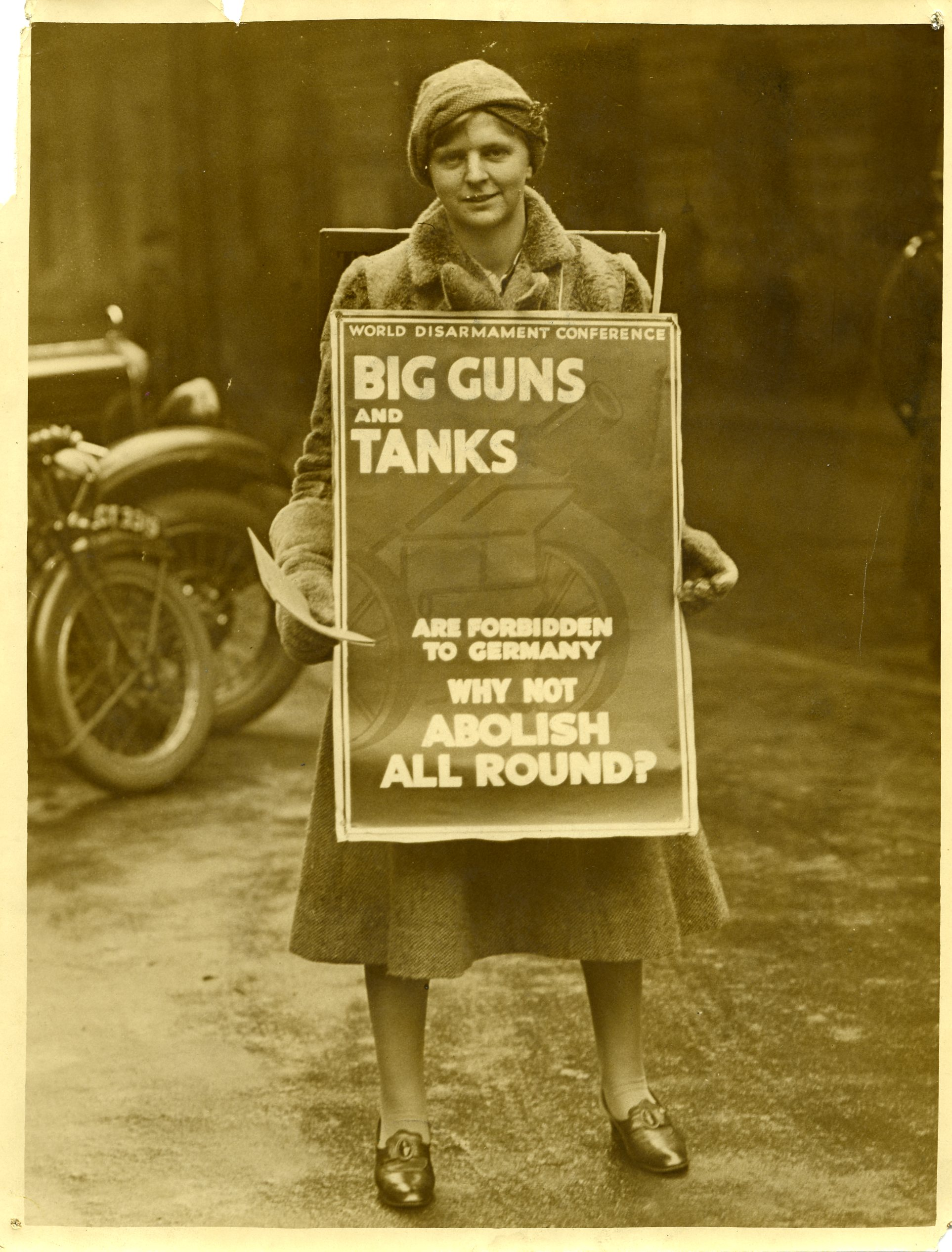 This unknown WILPF member is publicising the 1932 World Disarmament conference. It is possible that she is also collecting signatures for the world disarmament petition.